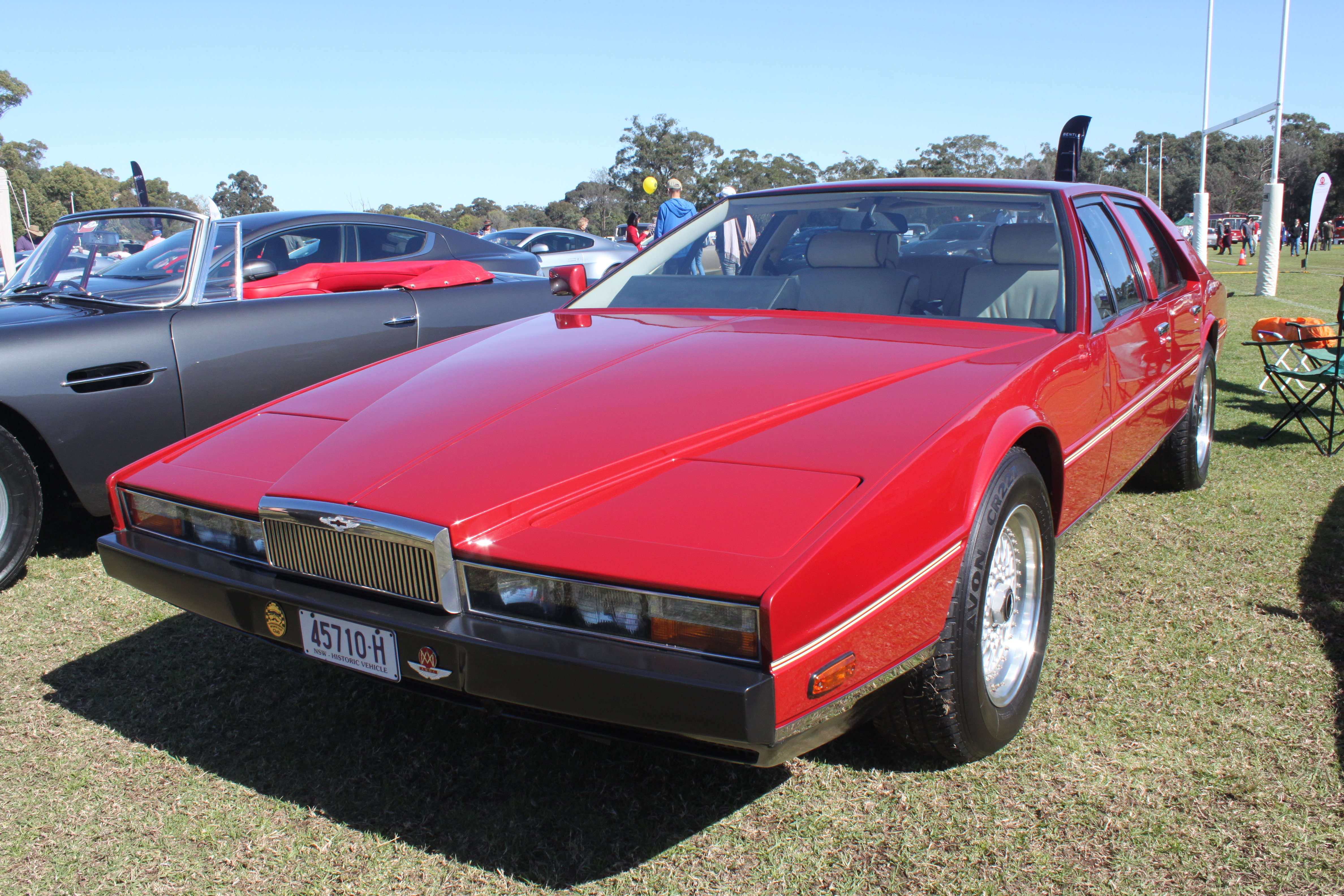 All British Day, Kings School, North Parramatta, NSW August 2015